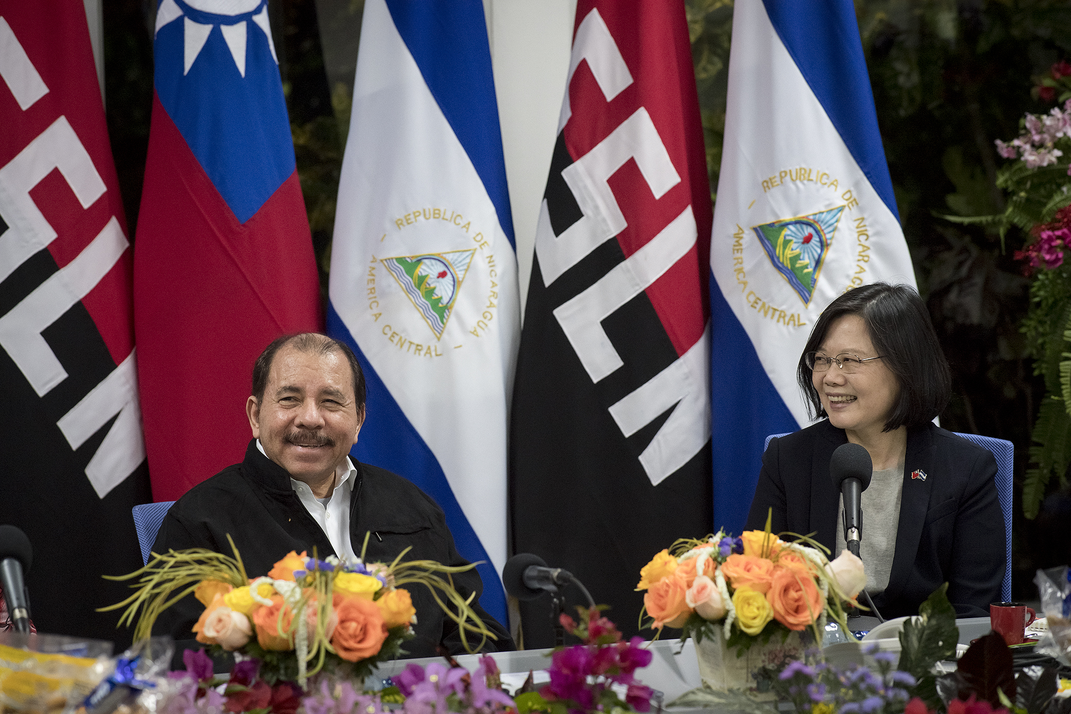 授權方式及範圍：中華民國總統府│政府網站資料開放宣告 Authorization Method & Scope: Office of the President, Republic of China (Taiwan) | Government Website Open Information Announcement